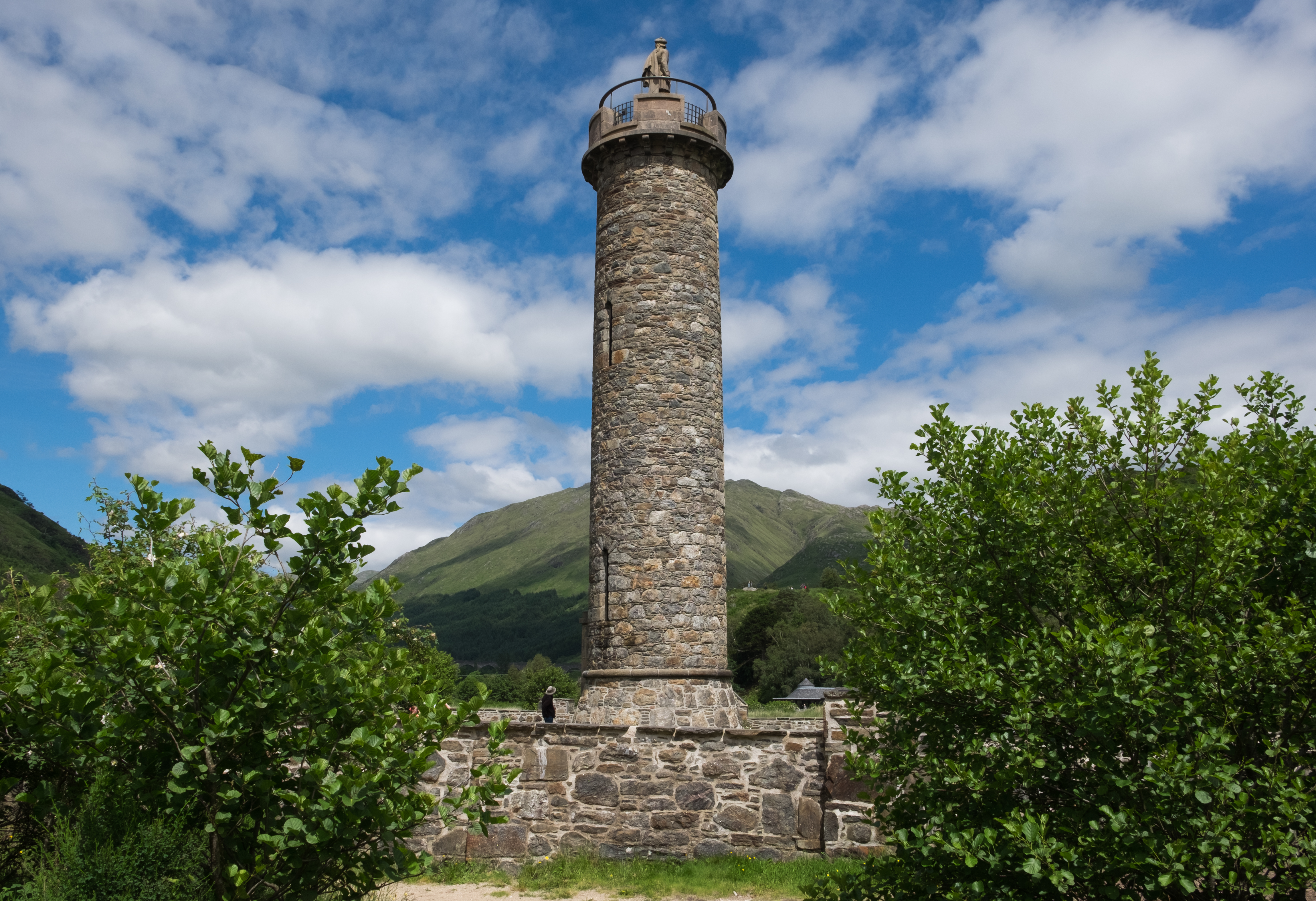 The Glenfinnan Monument. This monument, erected in 1814, is to commemorate the Highlanders who stood for Prince Charles Edward (Bonnie Prince Charlie) during the 1745 rebellion, is a category A Listed Building in Scotland.